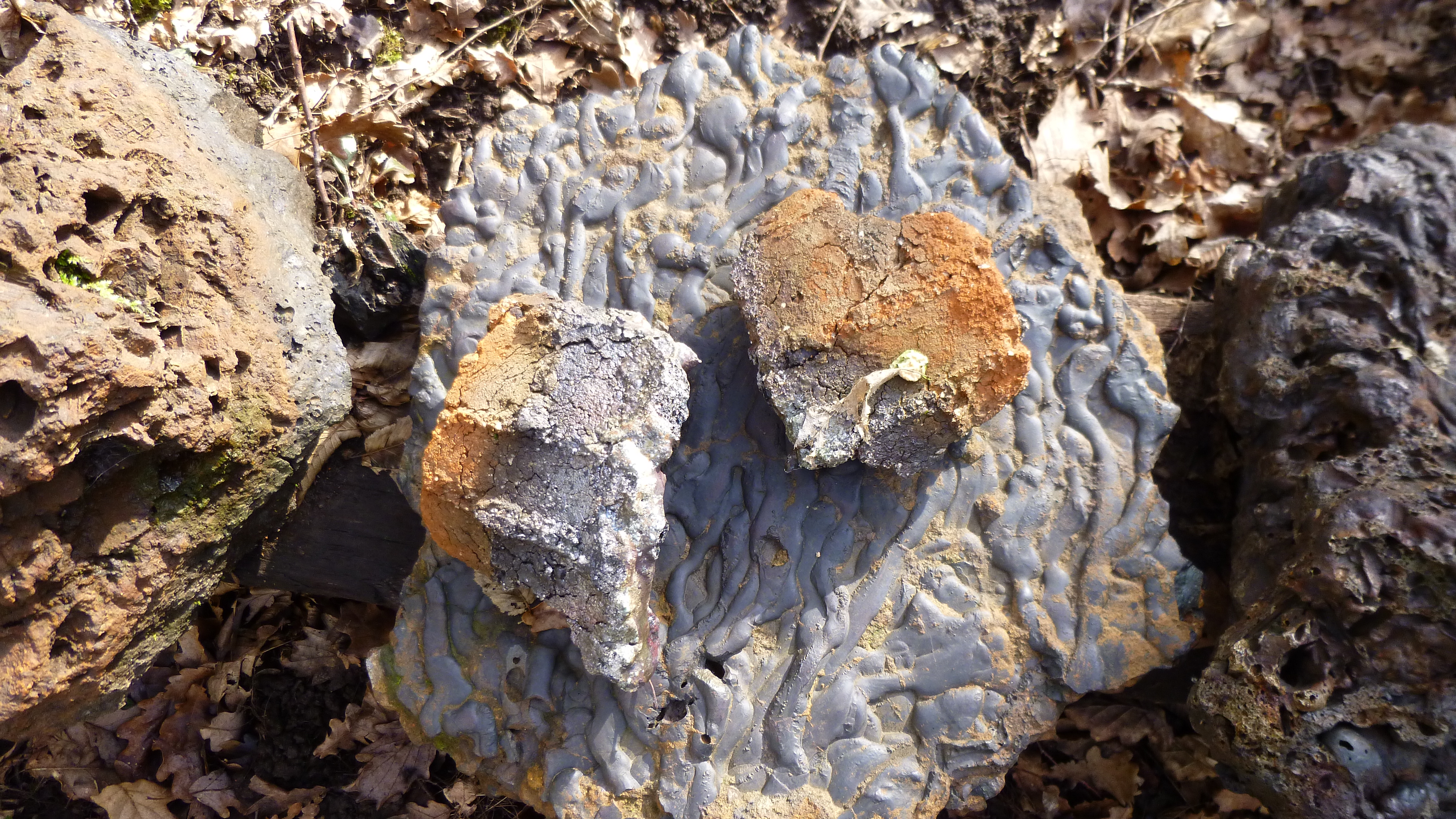 The "ferrier", Tannerre-en-Puisaye, Yonne, Burgundy, France. Sample of slag produced on site.